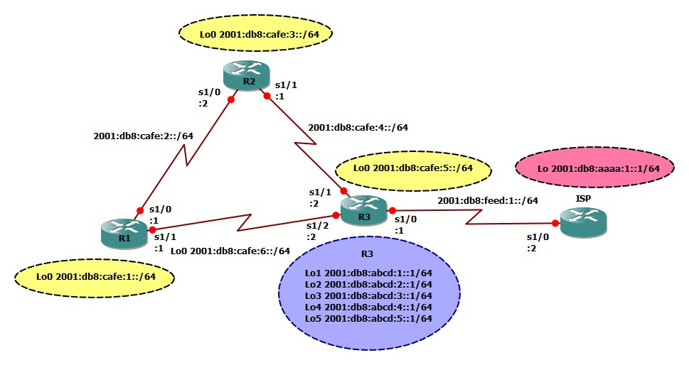 EIGRPv6 topology